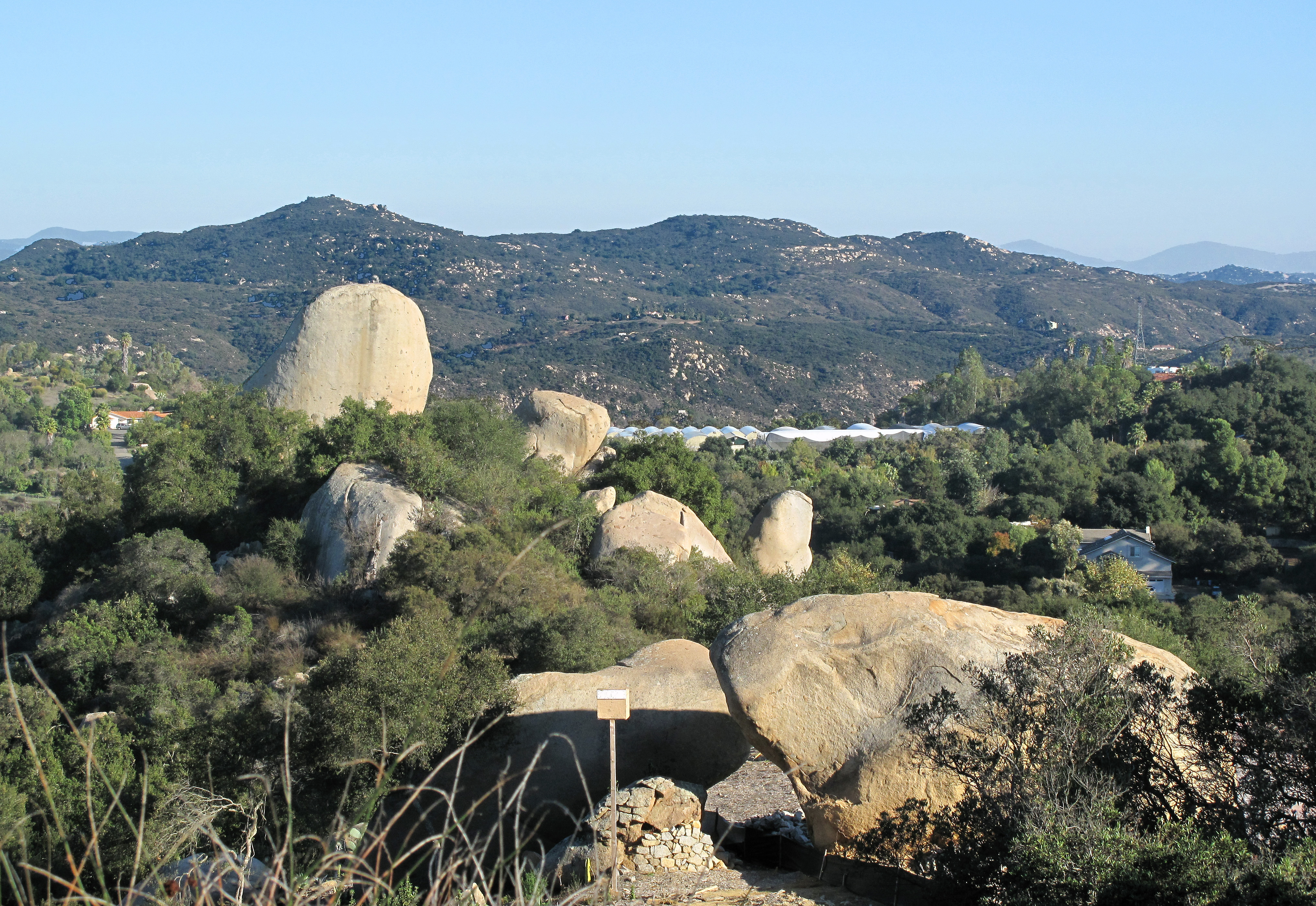 Rock formation, Hidden Meadows, San Diego County, California. Boulders like this are common in the area of several square miles. Houses and roads must be built around them, although many were blasted with dynamite during the rapid expansion of the country club in the 1960s. The large boulder in the center is locally known as Devil's Chair.